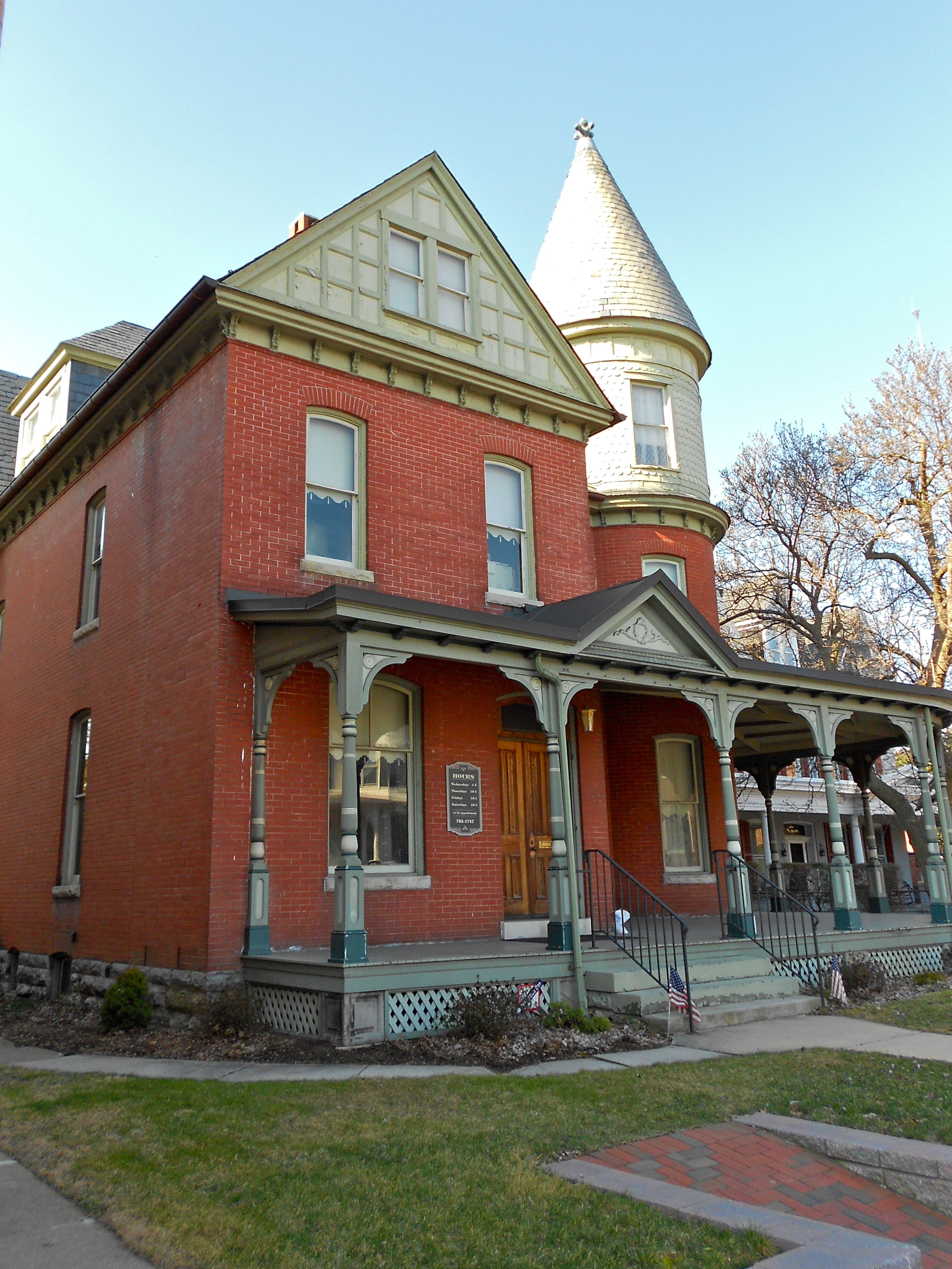 Joseph J. Oller House on the NRHP since June 28, 1996. At 138 West Main Street, Waynesboro, Franklin County, Pennsylvania. Now used as HQ of the Waynesboro Historical Society.